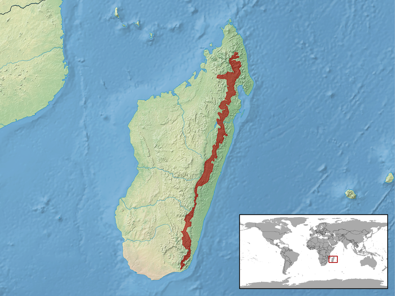 geographic distribution of Calumma brevicorne (Native: Madagascar)